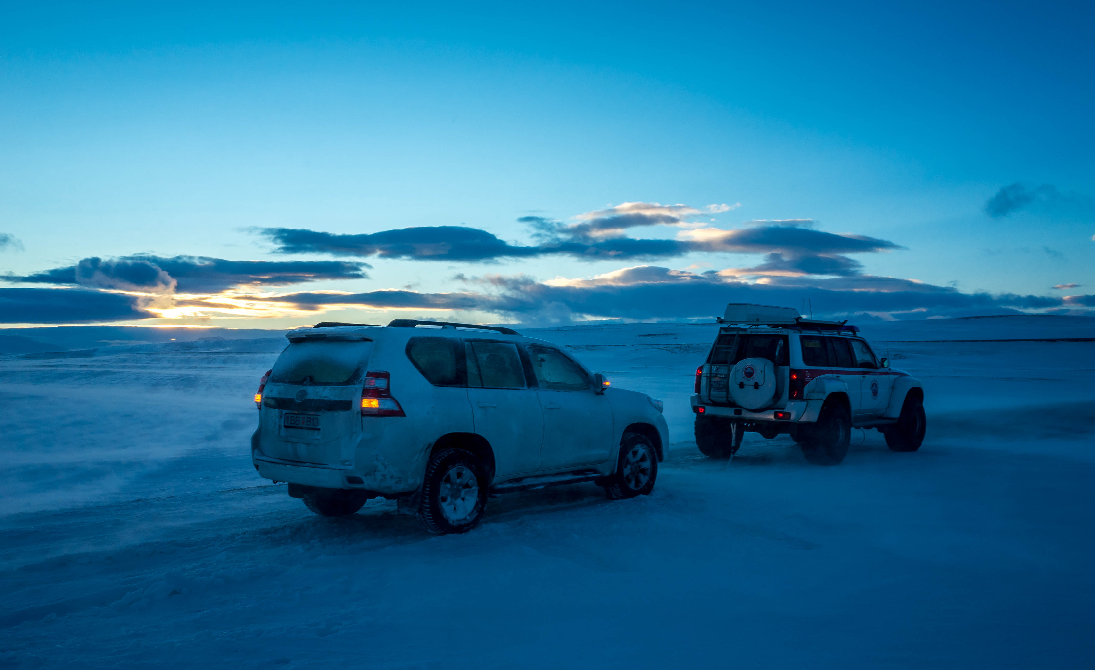 Rescued near Dettifoss!